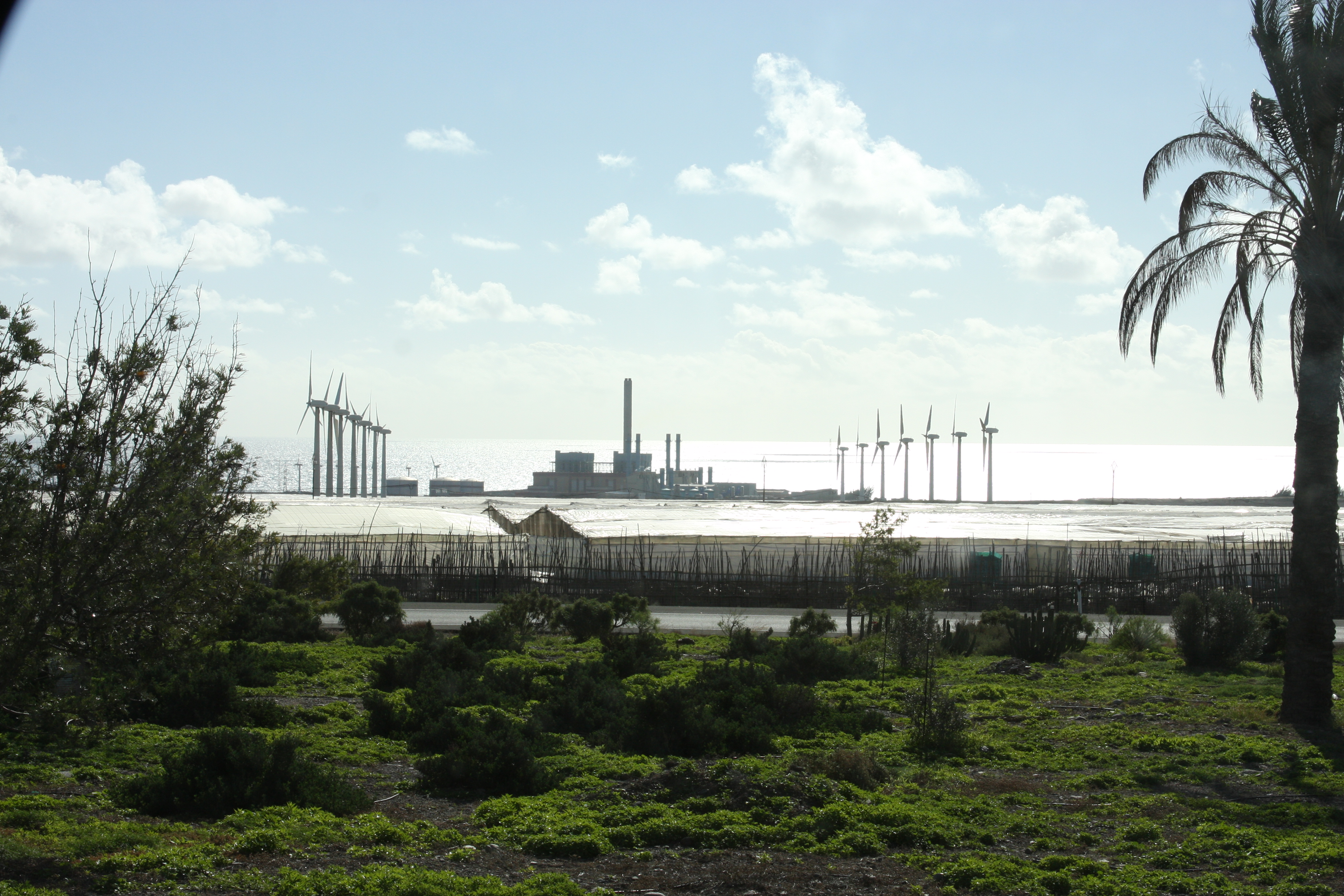 Barranco de Tirajana thermal powerplant, -east-southeastern Gran Canaria, Spain.